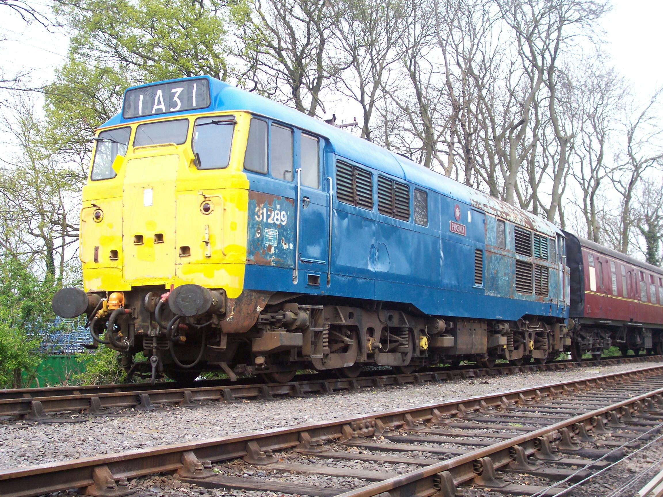 class 31, number 31289 at the Northampton & Lamport Railway